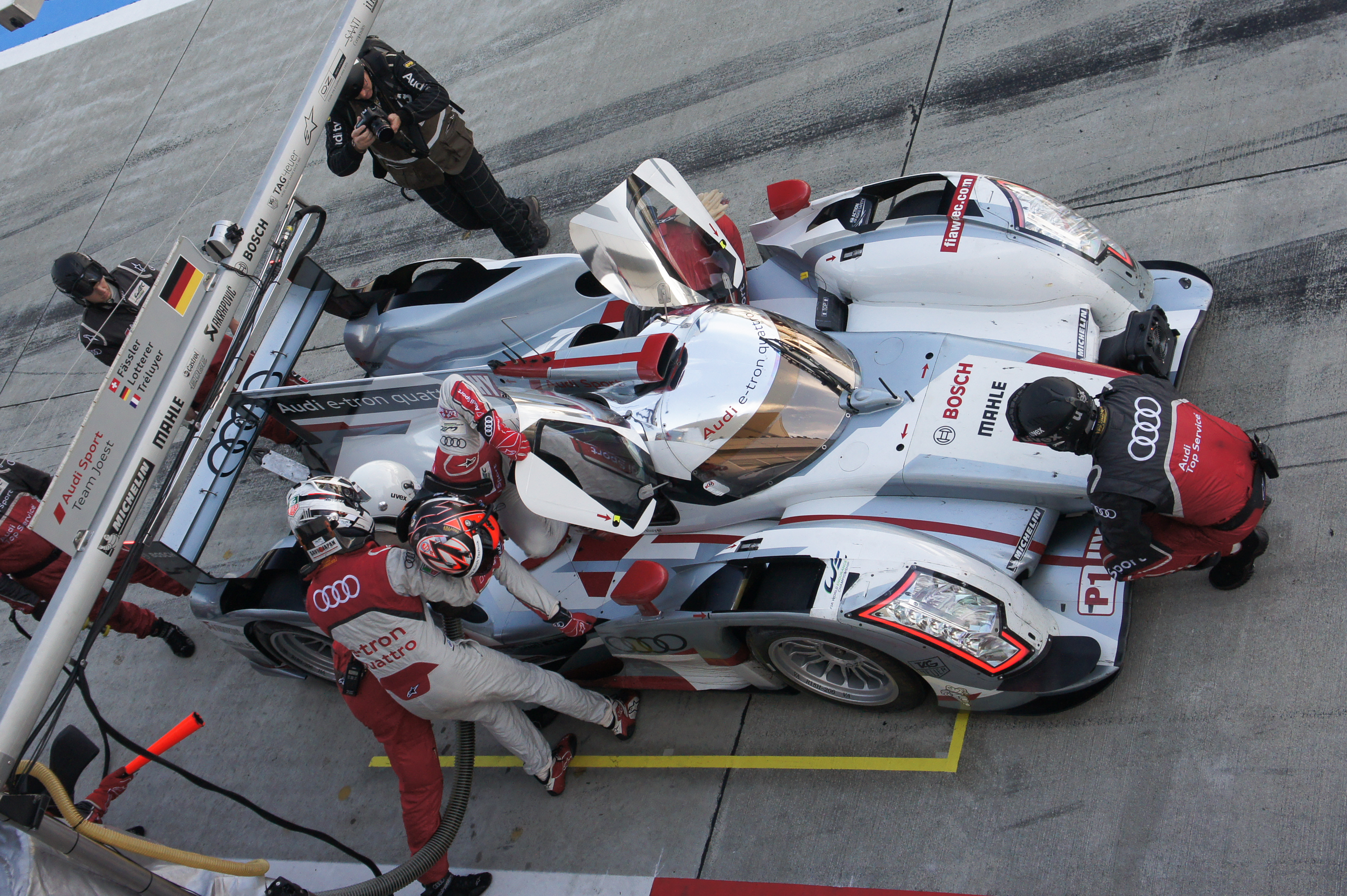 FIA World Endurance Championship 2012 Rd.7 6 Hours of Fuji: Audi Sport Team Joest's pit stop practice